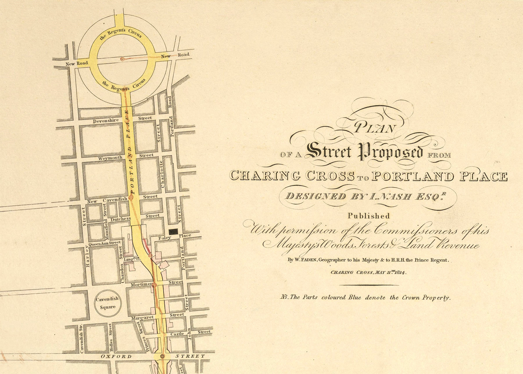 Plan for Portland Place and Regent's Circus, 1814